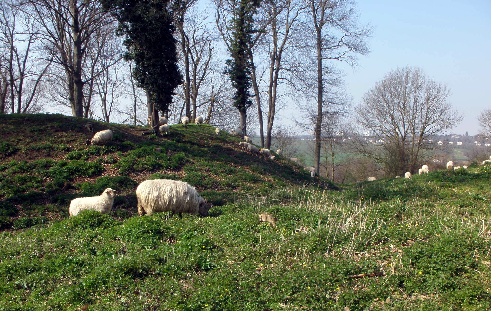 Maastricht, the Netherlands. View of a flock of sheep in Spring on mount Sint-Pietersberg, South of the city.